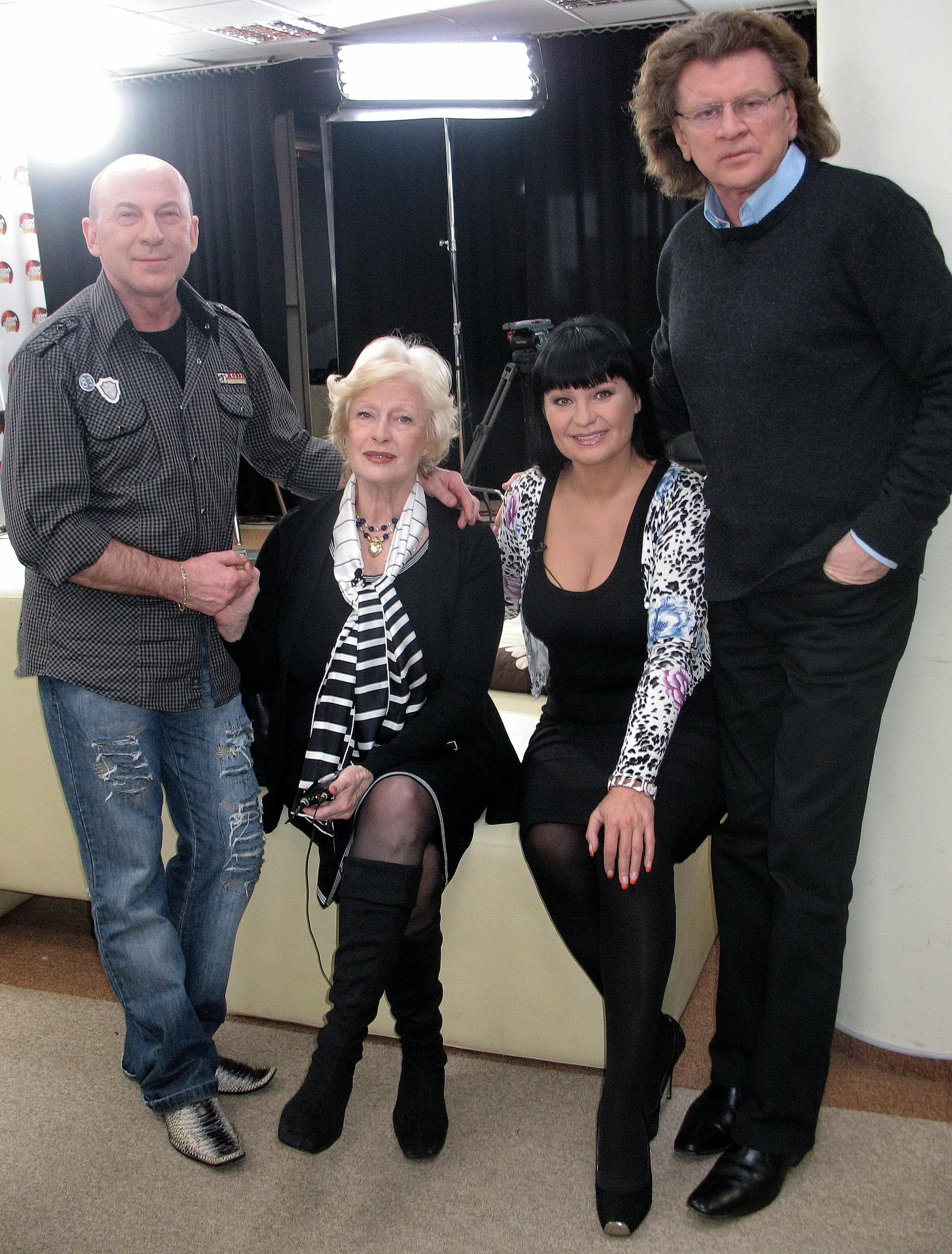 Dancing with the stars (Poland) (2010), TVN.